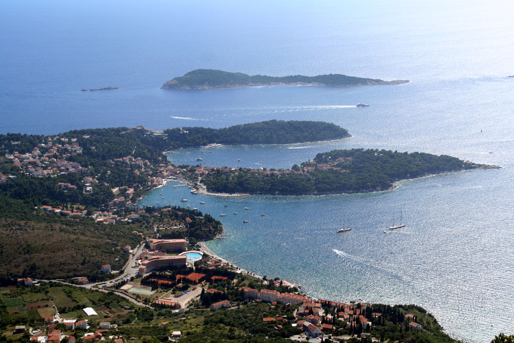 View of Cavtat from a hill above the town. Taken in July 2007 using a Canon EOS 350D camera.